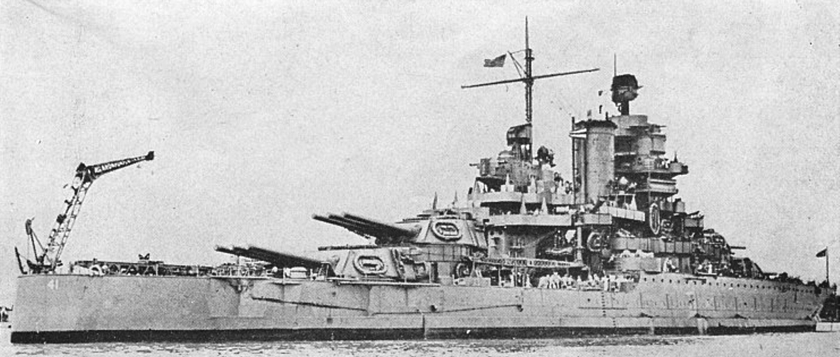 Aft view of the U.S. Navy battleship USS Mississippi (BB-41) in late 1942.